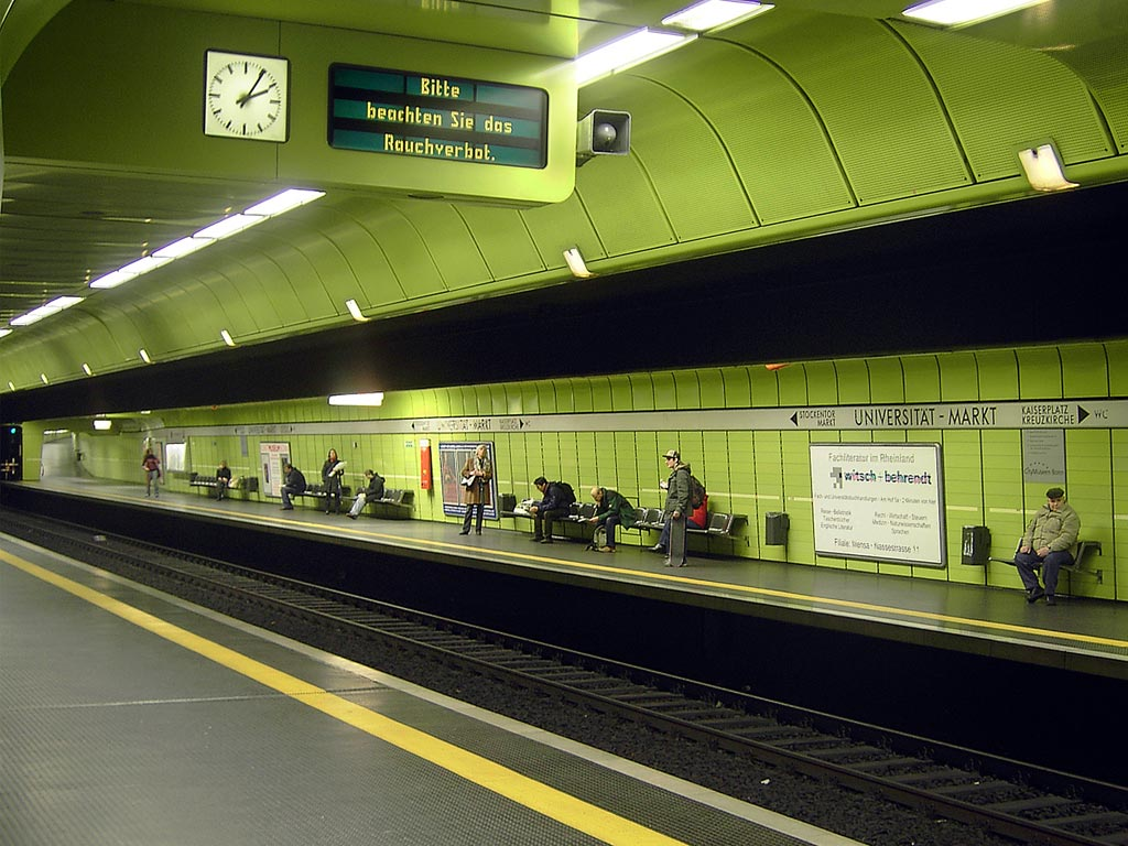 Bonn subway station Universität/Markt